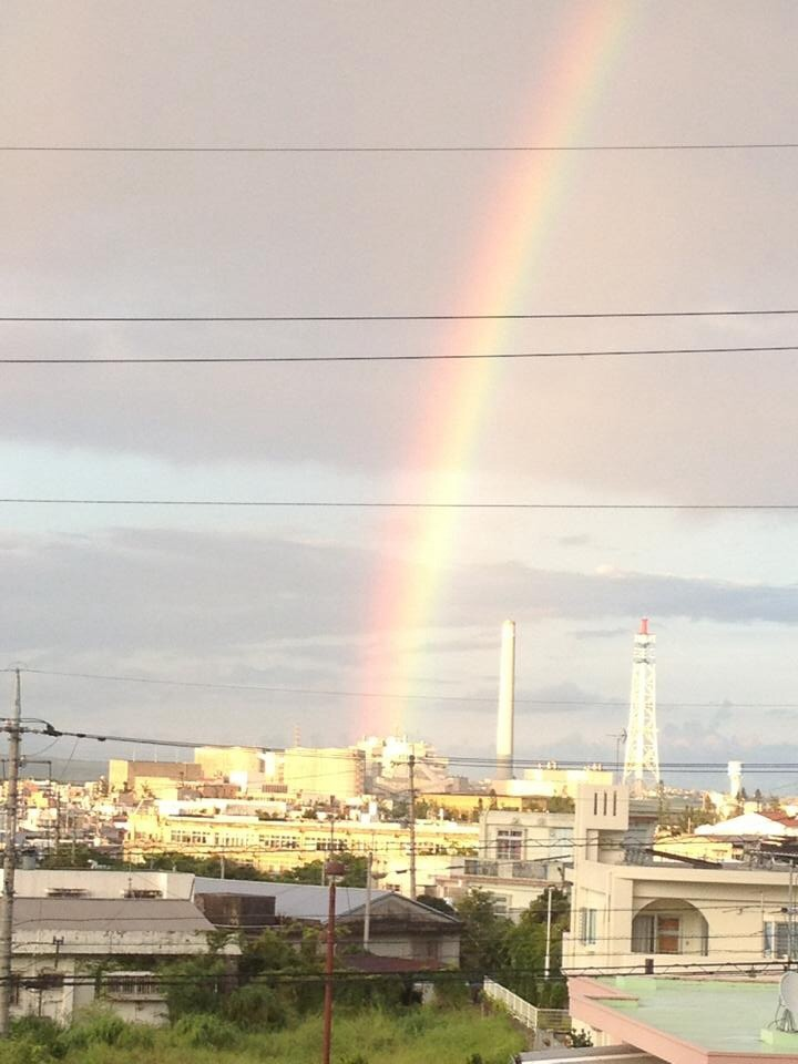 A view of Ishikawa City with a rainbow in the background.